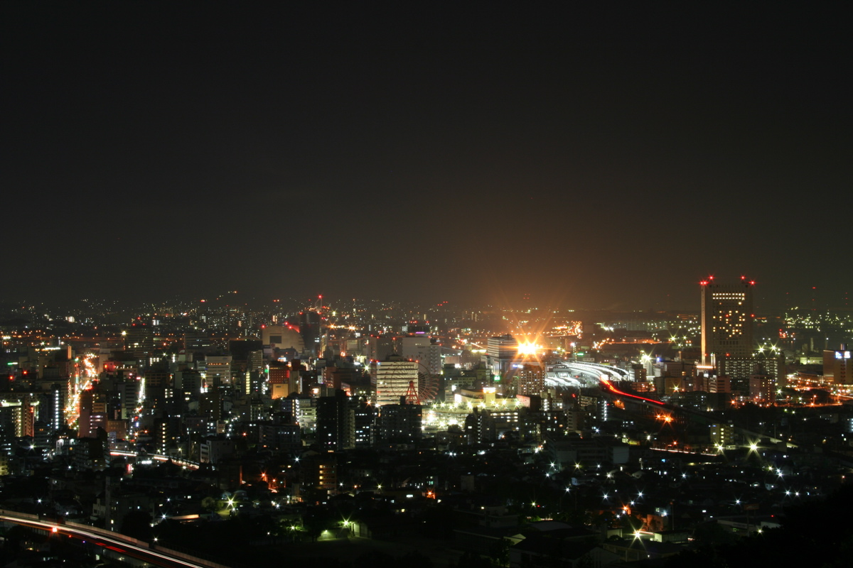 Nightscape of Kokura, a part of Kitakyushu City (Japan) From Mt.Myokenzan 北九州市小倉北区・妙見山より小倉駅方面の夜景